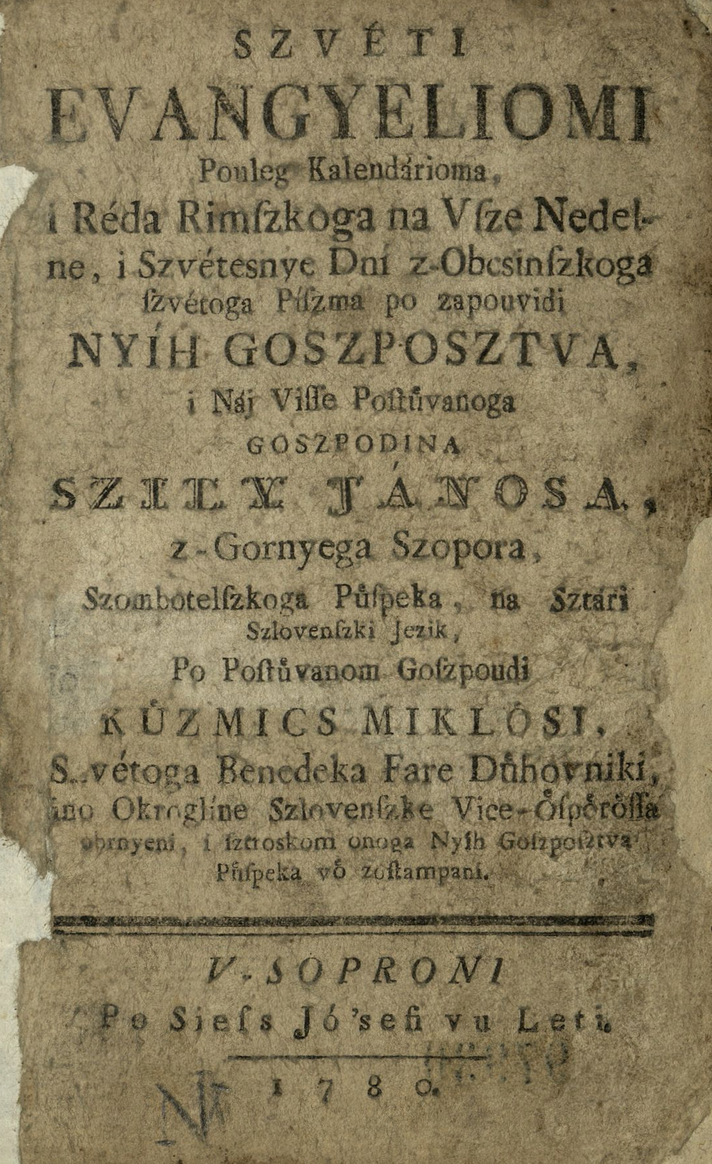 Miklós Küzmics: Szvéti evangyeliomi (Holy gospels) in Prekmurian language (prekmurščina). First issue from 1780